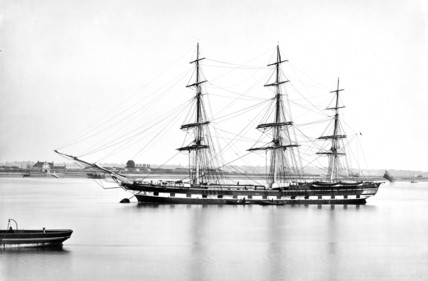 Parramatta - a wooden full-rigged ship built of teak in 1866 by James Laing, Sunderland. Dimensions: 231'0"×38'2"×22'8" and tonnage: 1521 GRT, 1521 NRT and 1298 tons under deck. She also loaded 190 tons under a raised quarter deck. Equipped with iron beams.